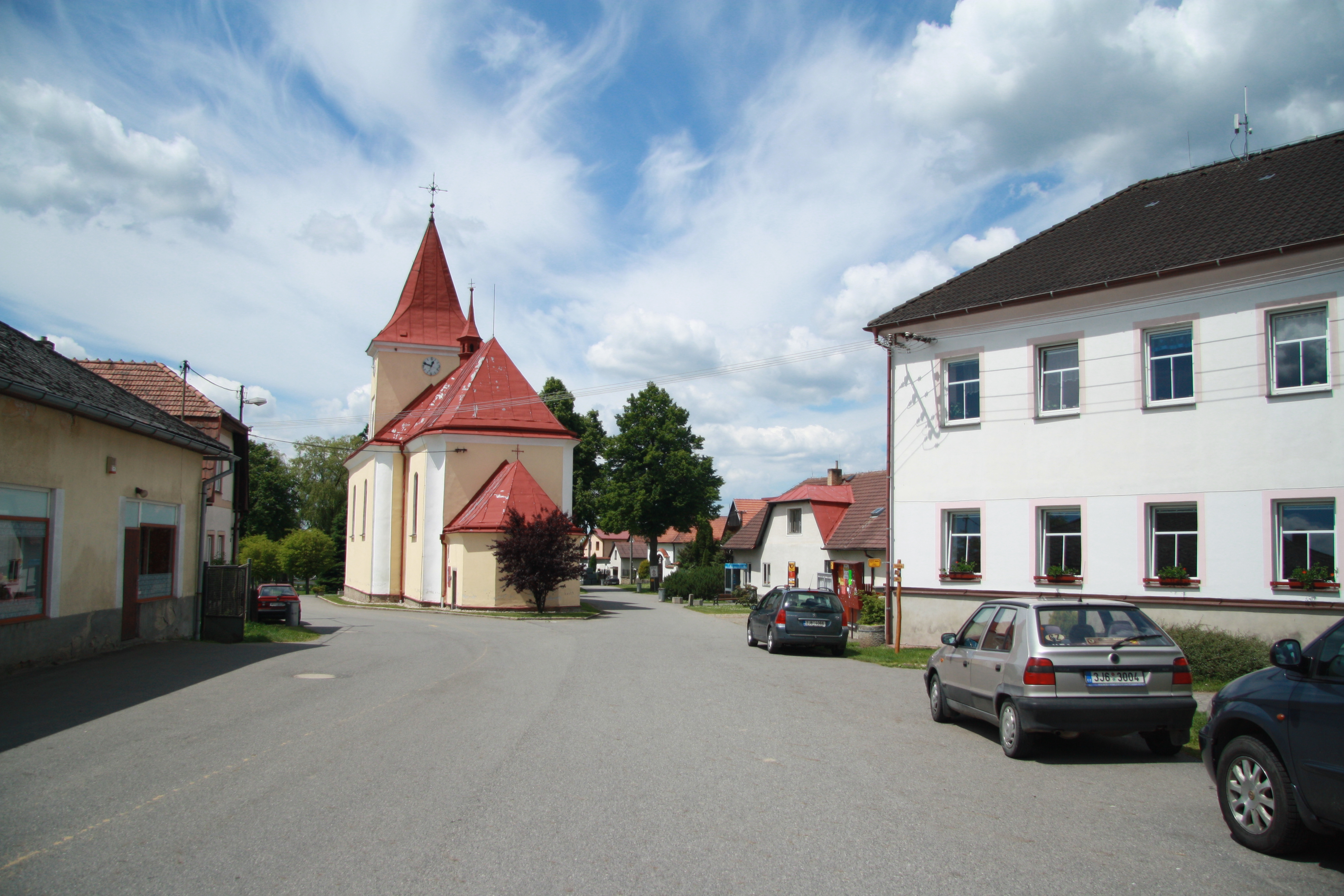 Center of Kaliště, Pelhřimov District.